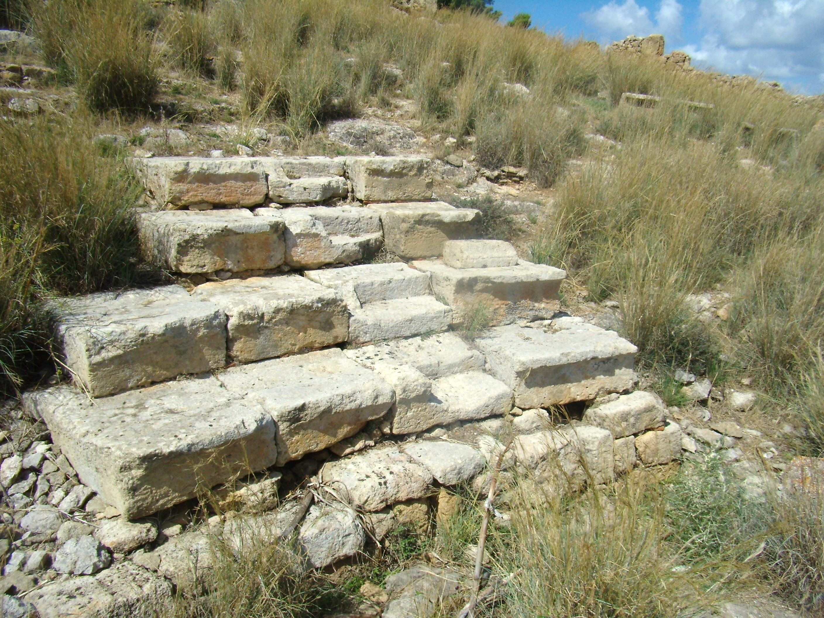 The remains of the theatre at Solunto, Sicily, about 2nd Cent. BC